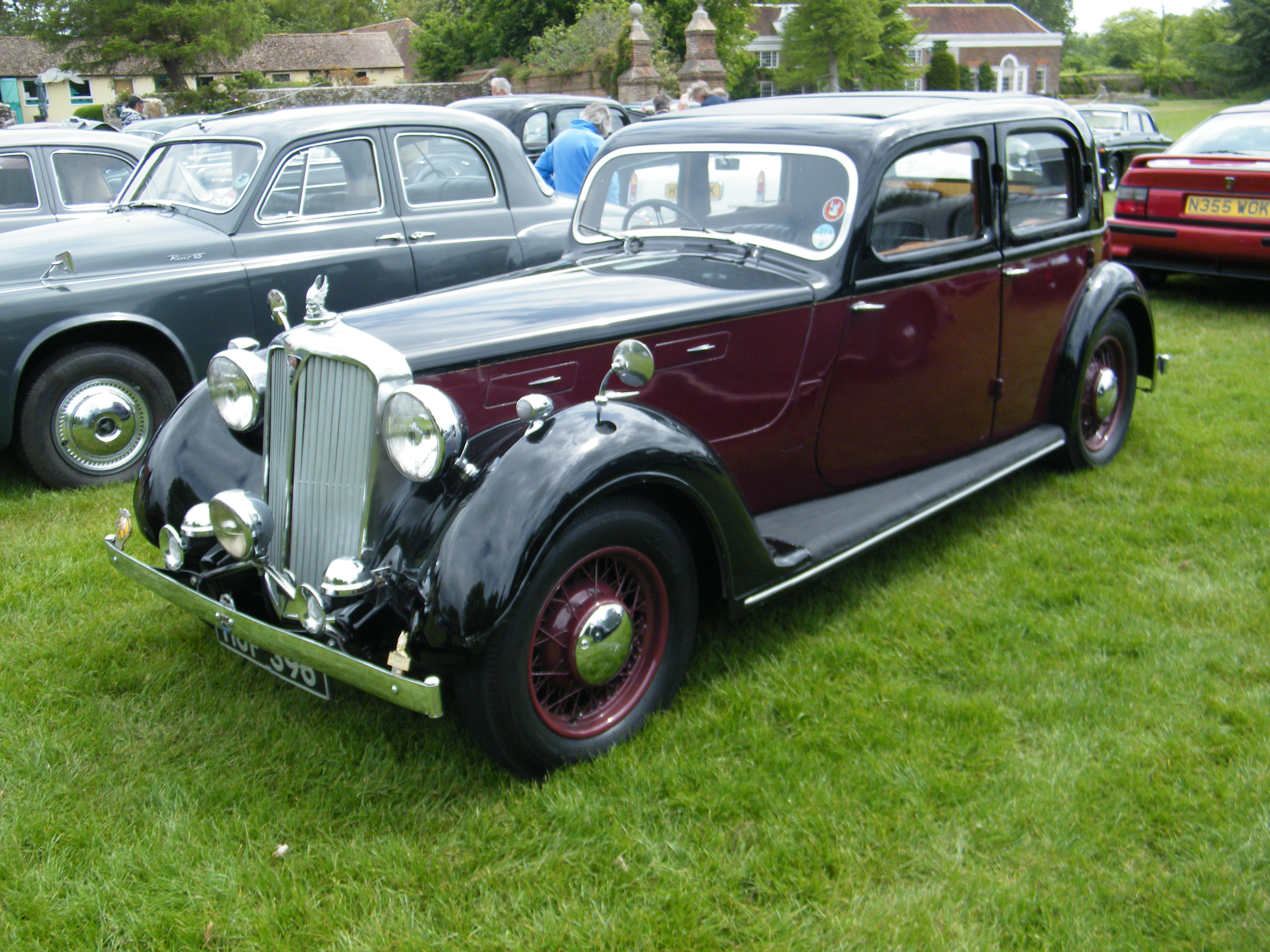 1947 Rover 16 four-light sports saloon HUF396 (DVLA) first registered 12 June 1947, 2147 cc Bentley Wildfowl and Motor Museum Halland Lewes Sussex Rover P4 Club Rally Teddy Bears Picnic 22nd. May 2011